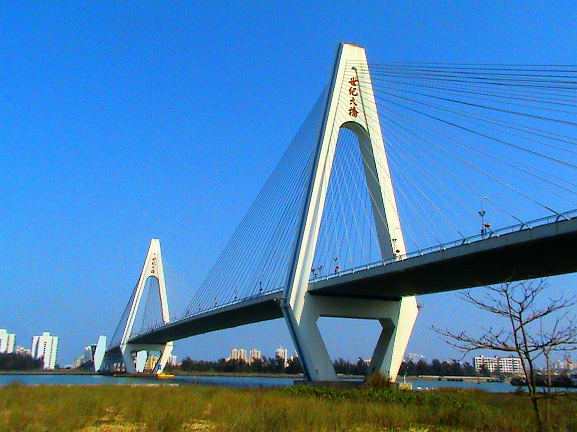 Century Bridge connecting Haikou city centre to Hai Dian Dao, also part of Haikou city. Hainan province, China. Taken from Haikou city side.